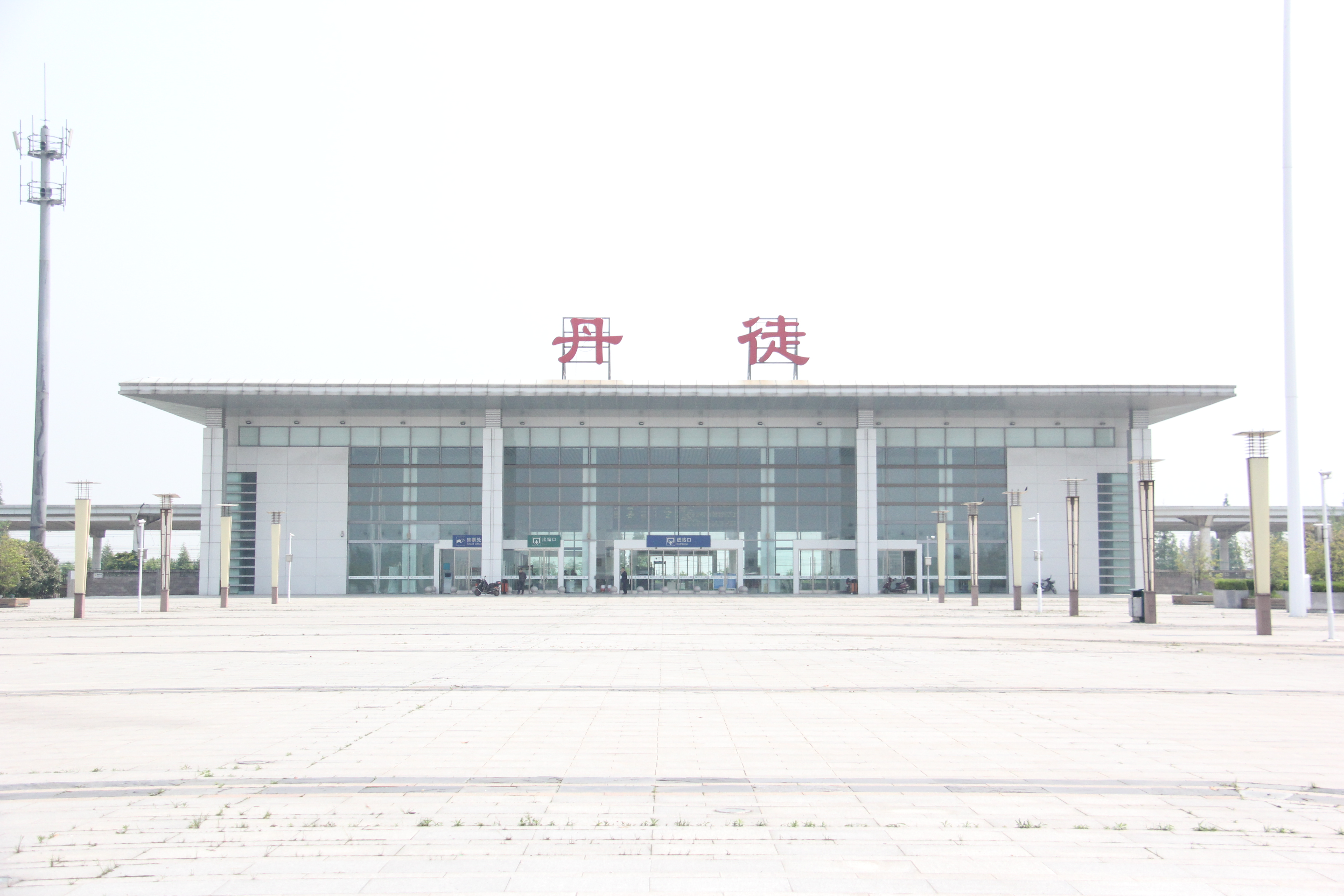 201604 Facade of Dantu Railway Station